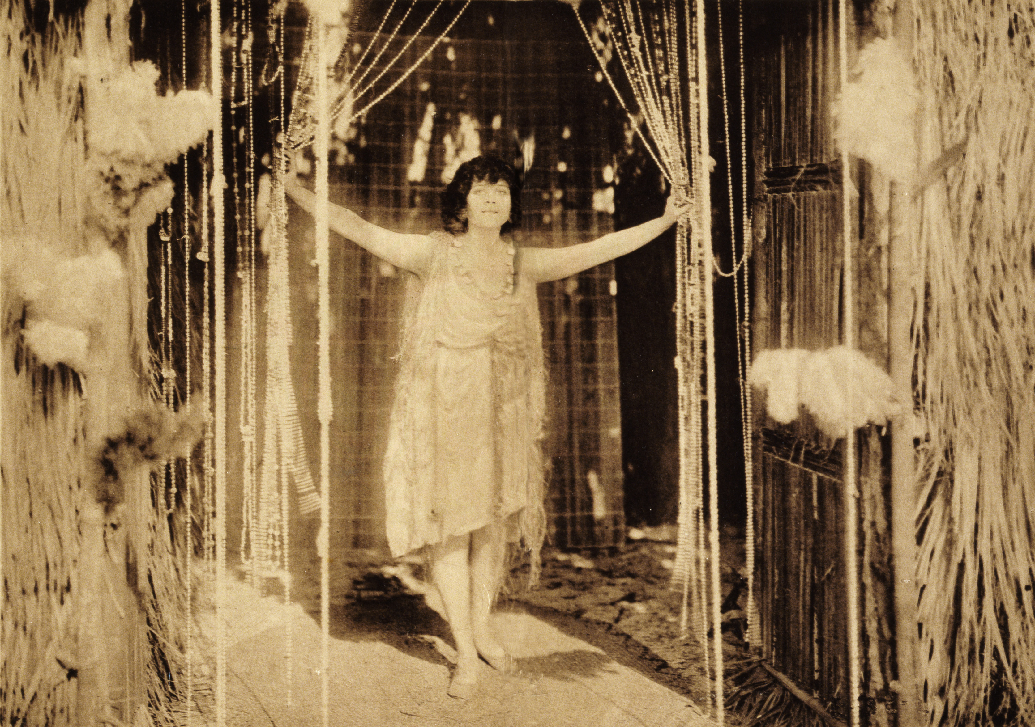 Motion picture lobby card for A Woman There Was shows star Theda Bara in a scene from the film, 1919. Caption reads: "William Fox presents Theda Bara in A woman there was, the story of a princess who died for a man. A Theda Bara super production, Fox Film Corporation. Direction J. Gordon Edwards."